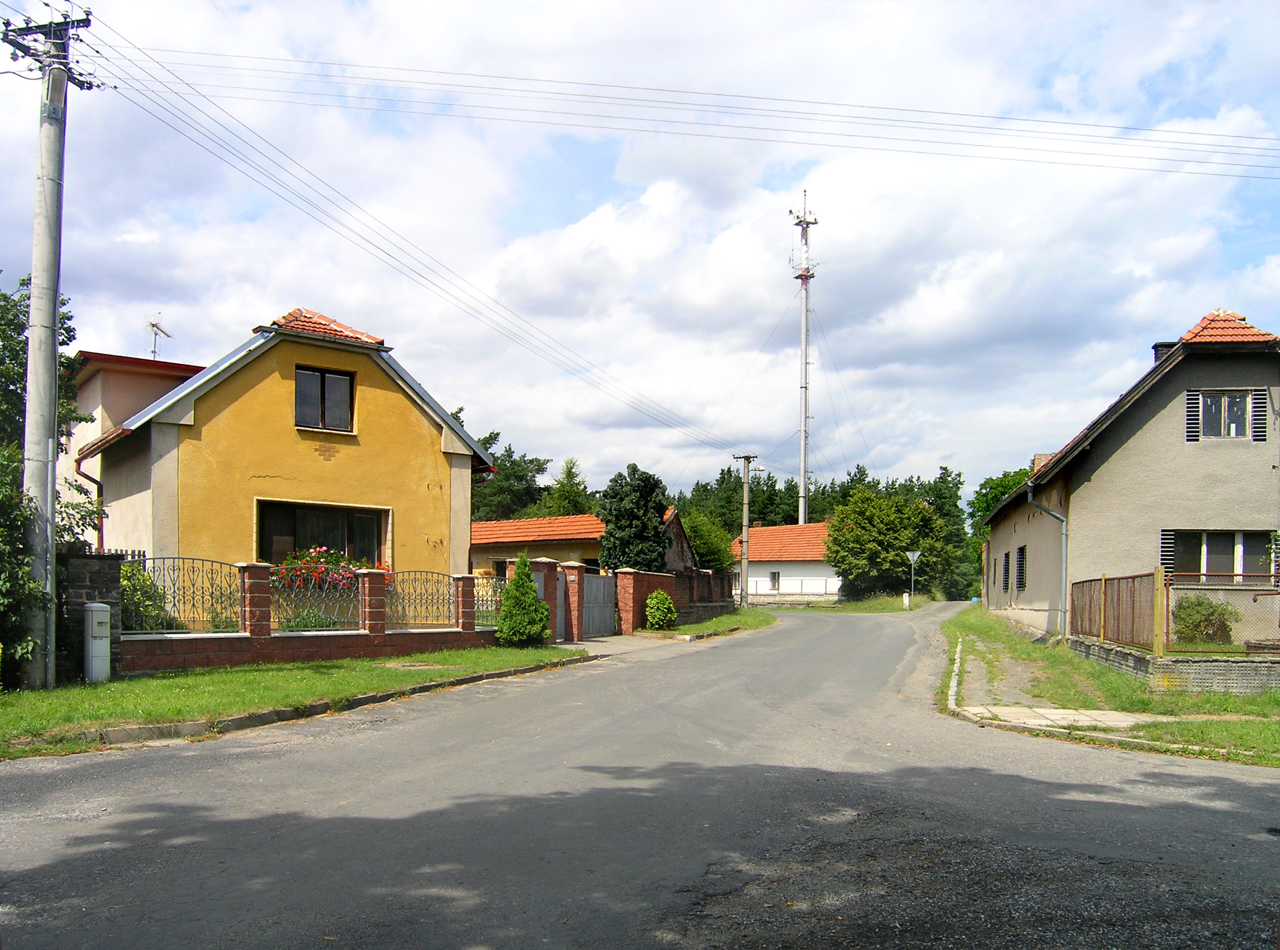 Jelen village, part of Konárovice, Czech Republic